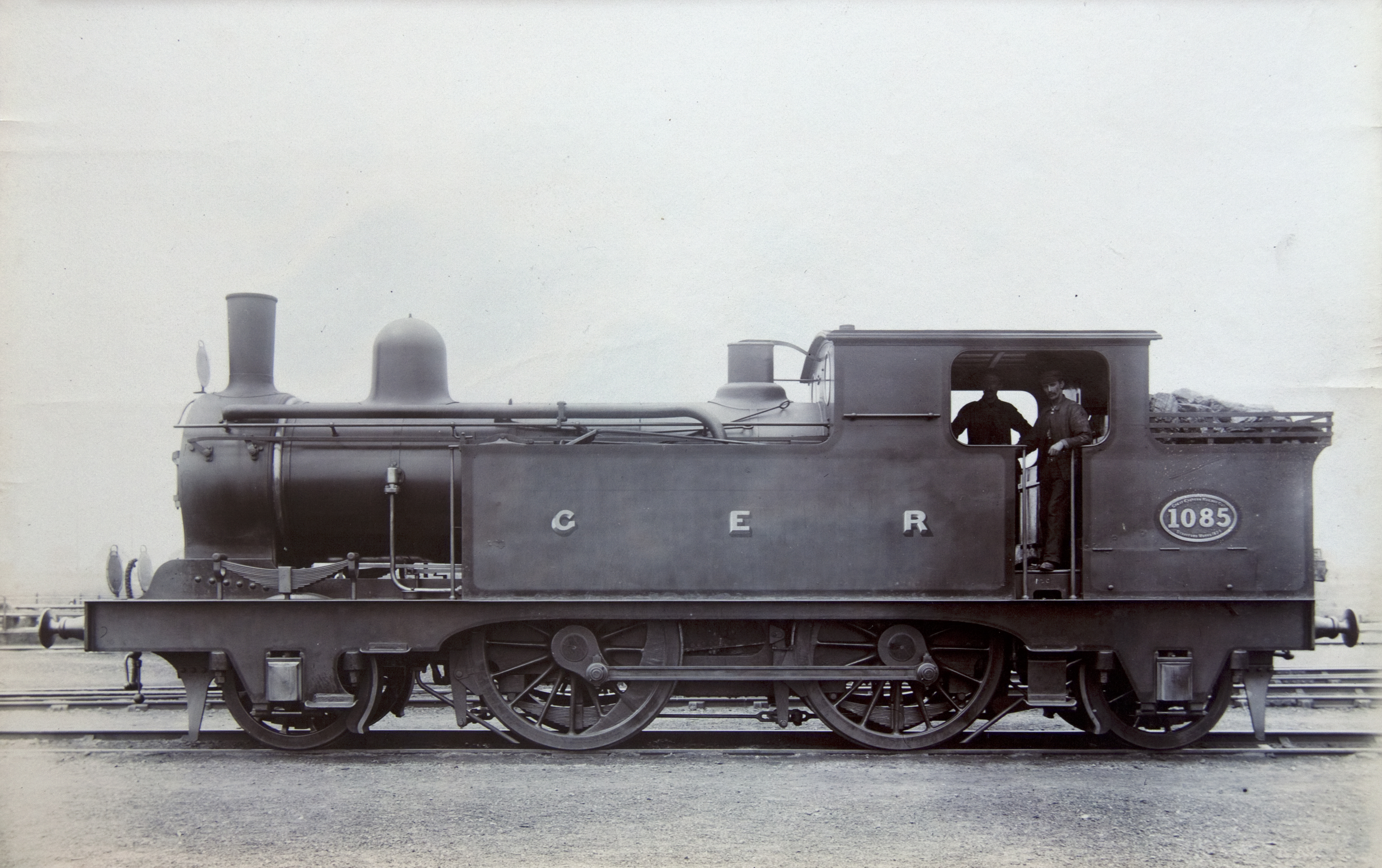 The C32 Class 2-4-2Ts were a tank engine version of the T26 class 2-4-0 for heavy passenger and outer suburban work. Built between 1893-1902, they had a fairly long life with one engine not being withdrawn until 1950 This photo was taken from an old original photo we came across while helping to clear the house of a deceased friend. I have uploaded it to Flickr in the hope that it might be interesting to steam enthusiasts.